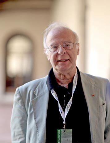 Giuseppe O. Longo at Festivaletteratura 2010 (Mantua, September 2010)